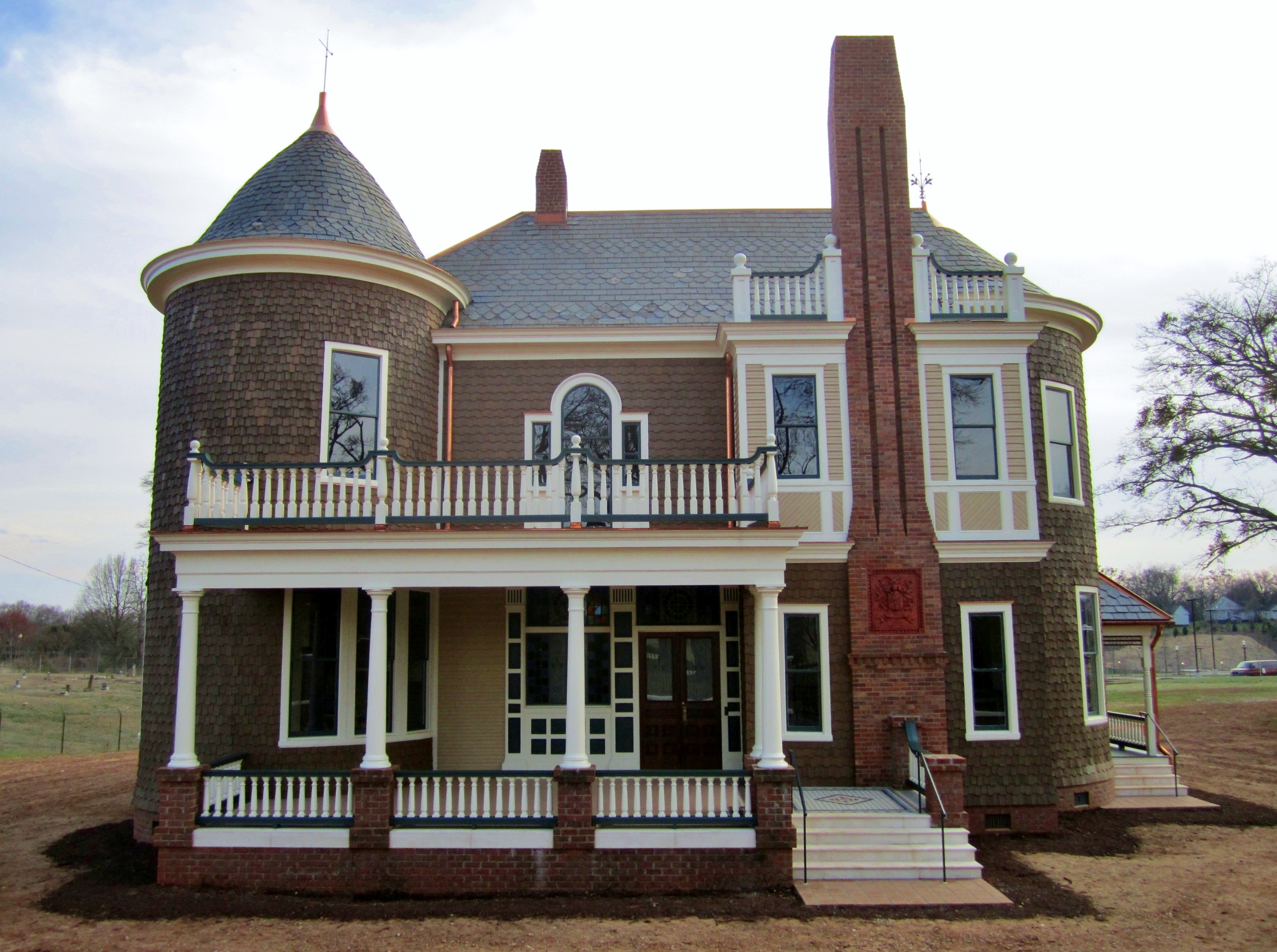 The historic, recently-restored Bishop William Wallace Duncan House (also known as the DuPre House).